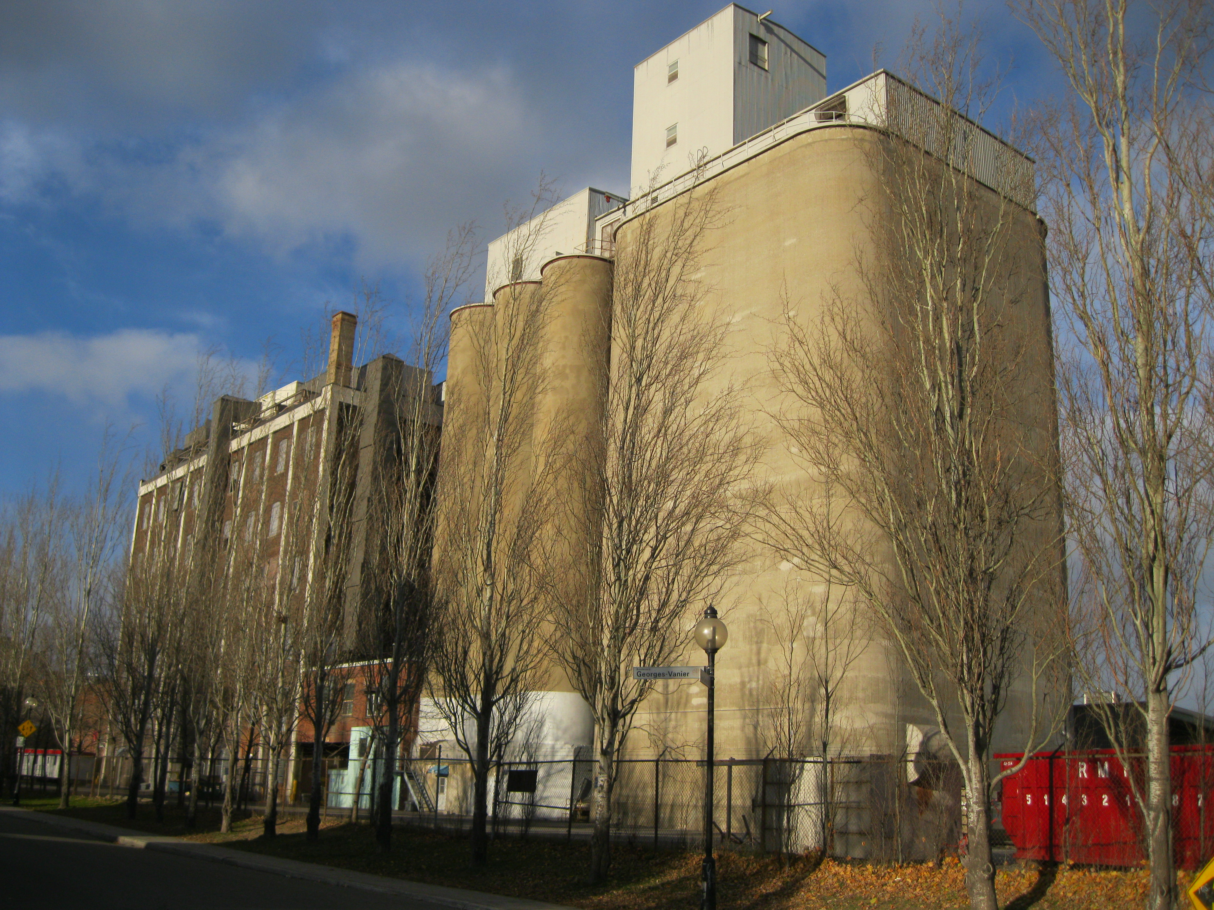 Horizon Milling, owner of Robin Hood brand since 2006, located at 2110, Notre-Dame Street, Montreal, Quebec, Canada. History